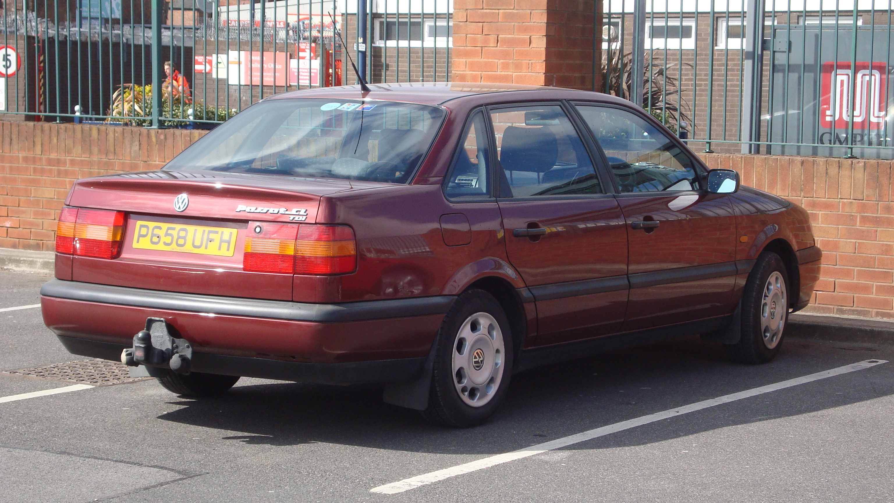 Still see a few of these about but most of them look pretty tatty so I thought this one deserved a photo